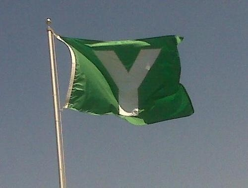 Flag of Yorktown, New York